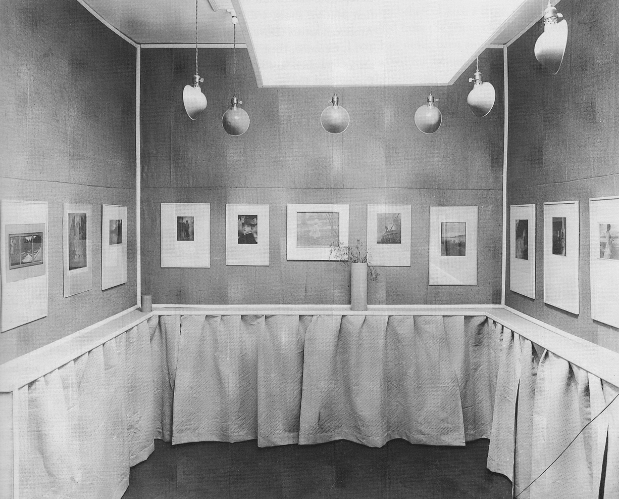 View of the Little Galleries of the Photo-Secession, New York, New York